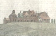 An image of The Leasowes created during the lifetime of William Shenstone